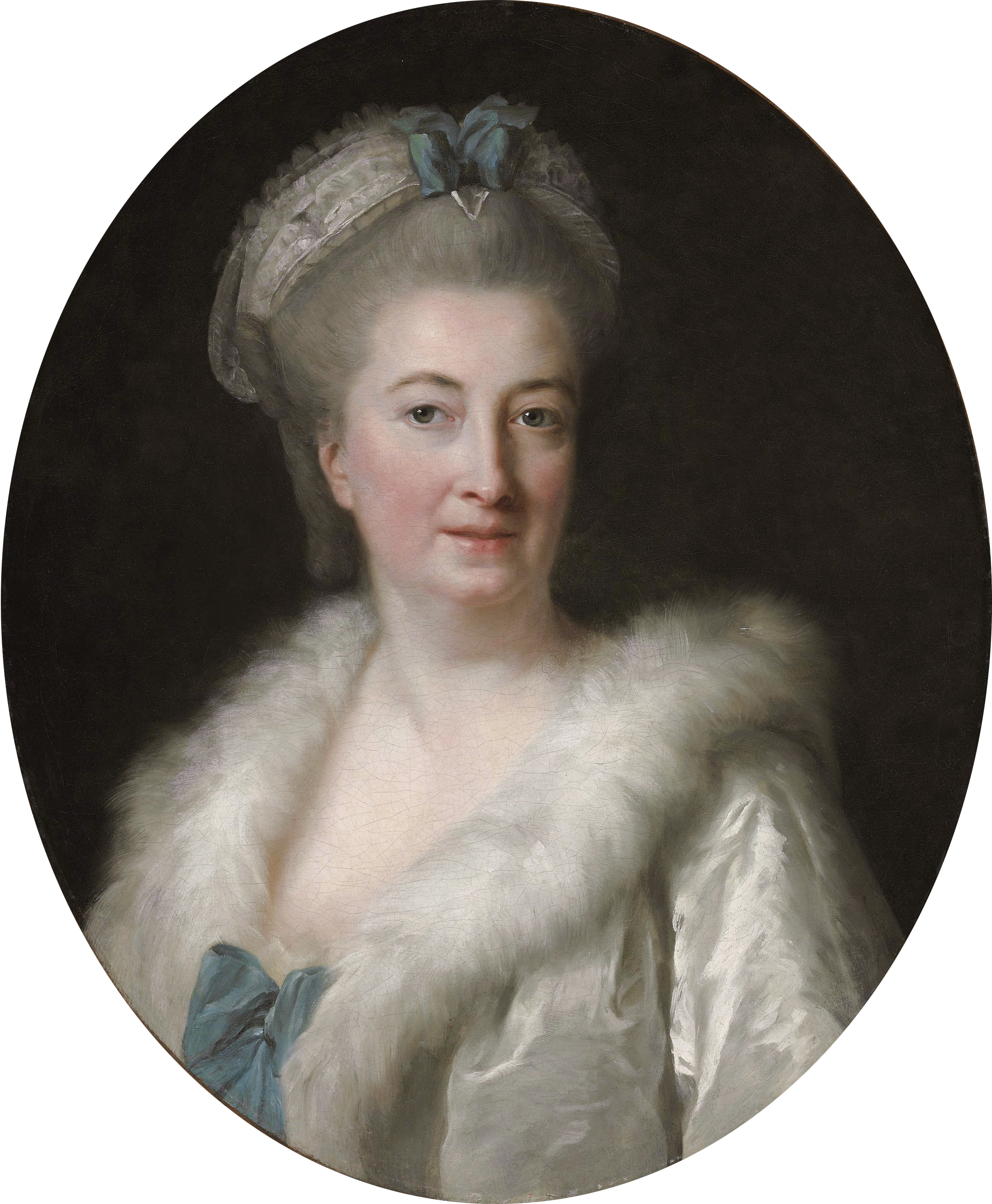 Madame Le Sèvre, fashionable hairdresser in Paris, née Jeanne Maissin (1728-1800), mother of Elisabeth-Louise Vigée Le Brun (Paris 1755-1842)